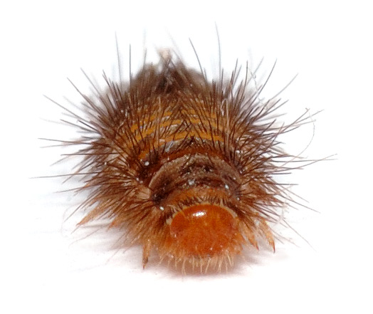 This image shows an about 0.18 inch (4.6 mm) large Varied carpet beetle larva (Anthrenus verbasci).